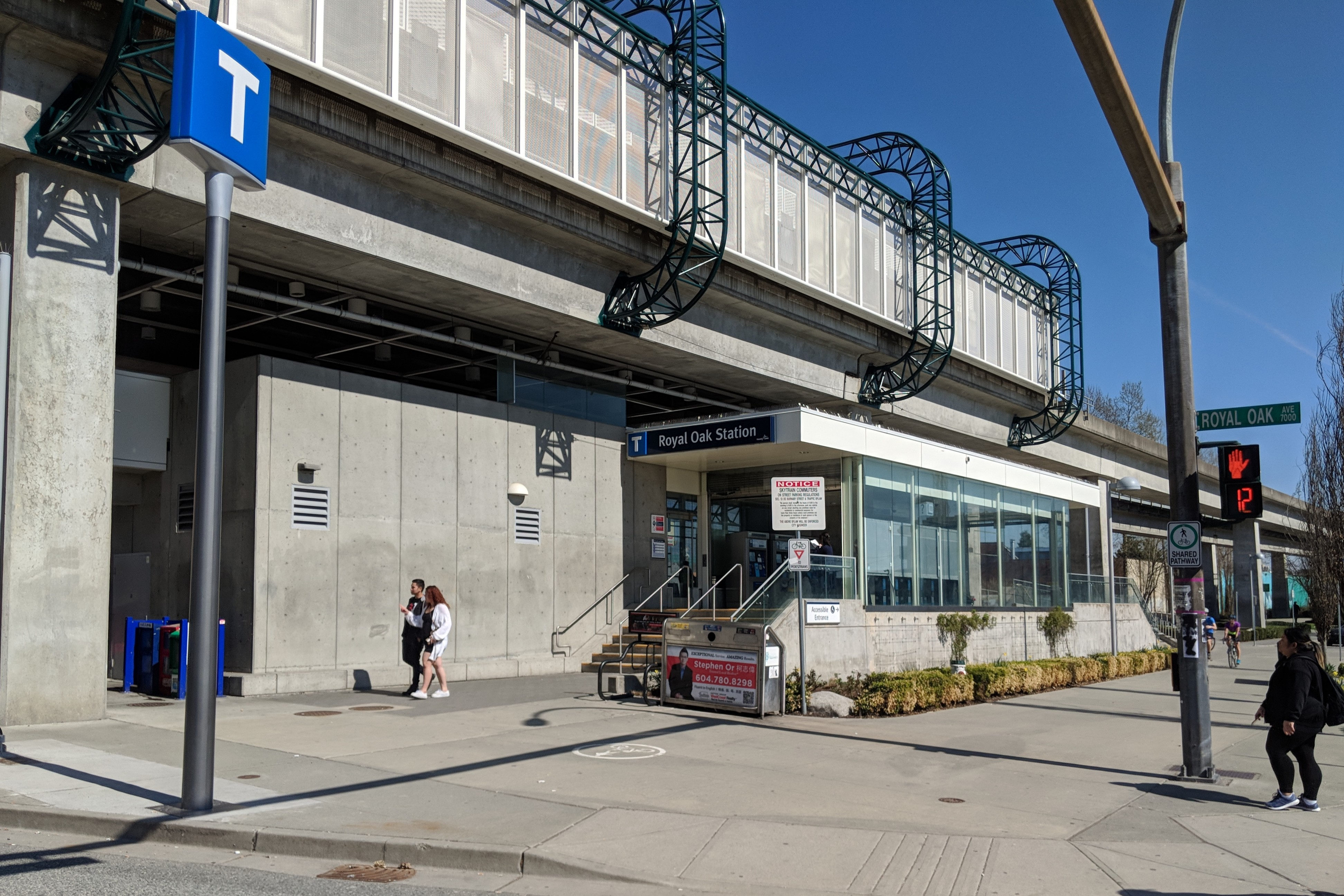 Royal Oak station entrance in March 2019.